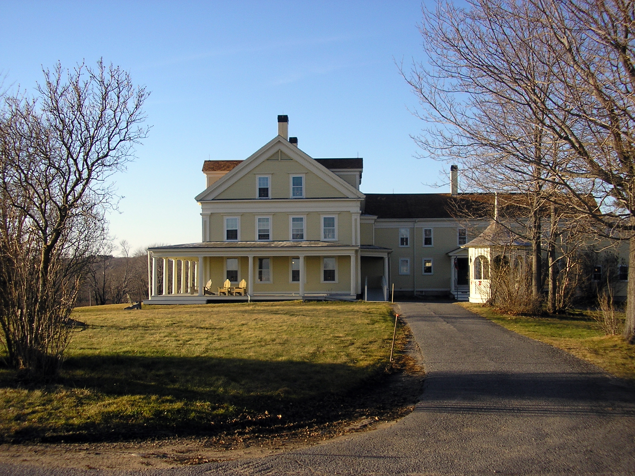 A photograph of the main building at Laudholm Farm, Wells, Maine. For use in the relevant WikiPedia article.